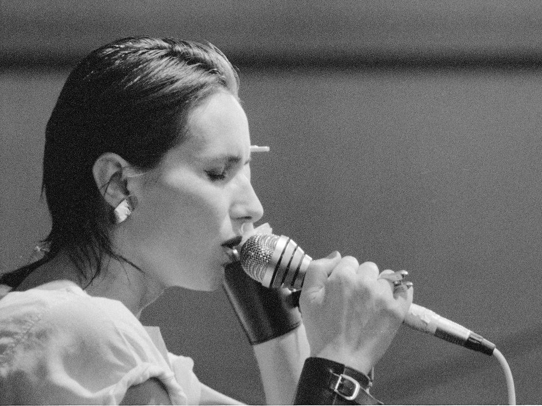 Olga Jackowska (aka Kora) of Maanam, 'Das Fest' 1985 in Karlsruhe/Germany.